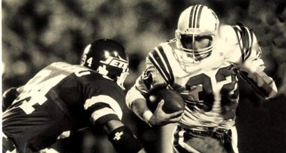 New England Patriots running back Craig James (right) rushing the ball during a 1985 home game against the New York Jets.